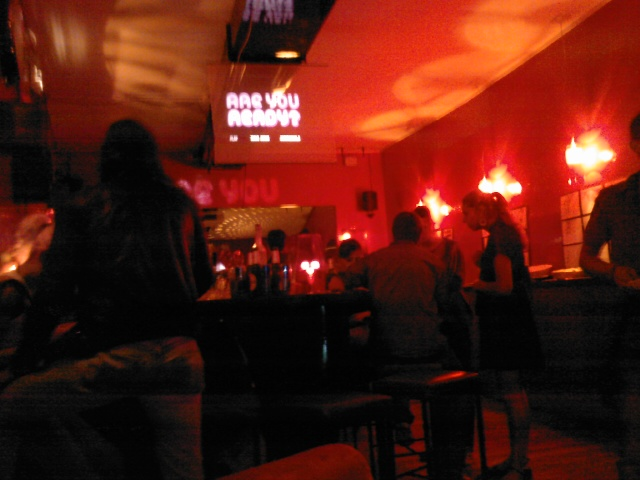 American bar florence